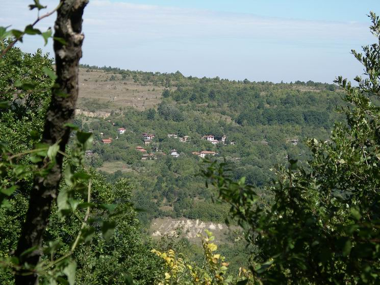 View to village Buchukovtski, Bulgaria